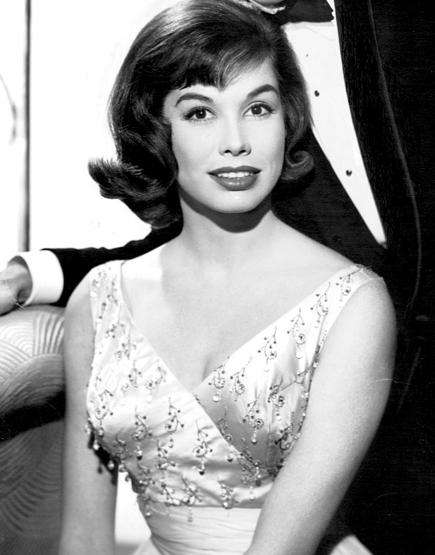 Mary Tyler Moore, 1961